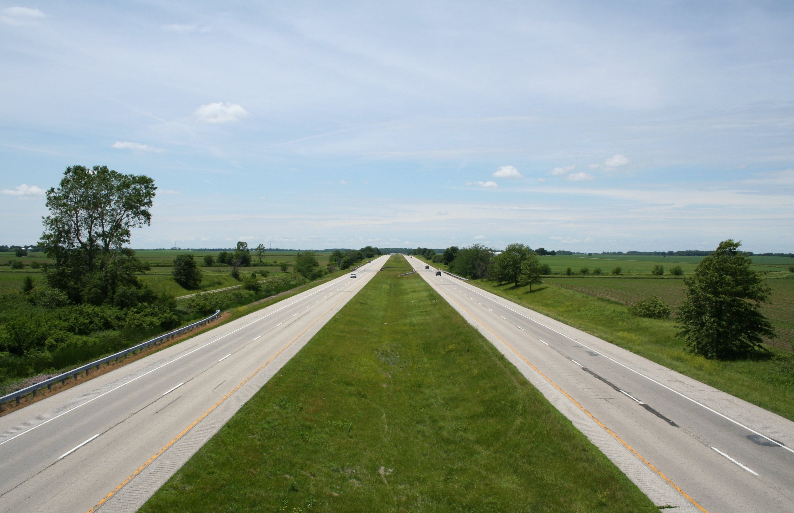 I-72 North of Seymour Illinois, looking west. Approx, mile post 175.